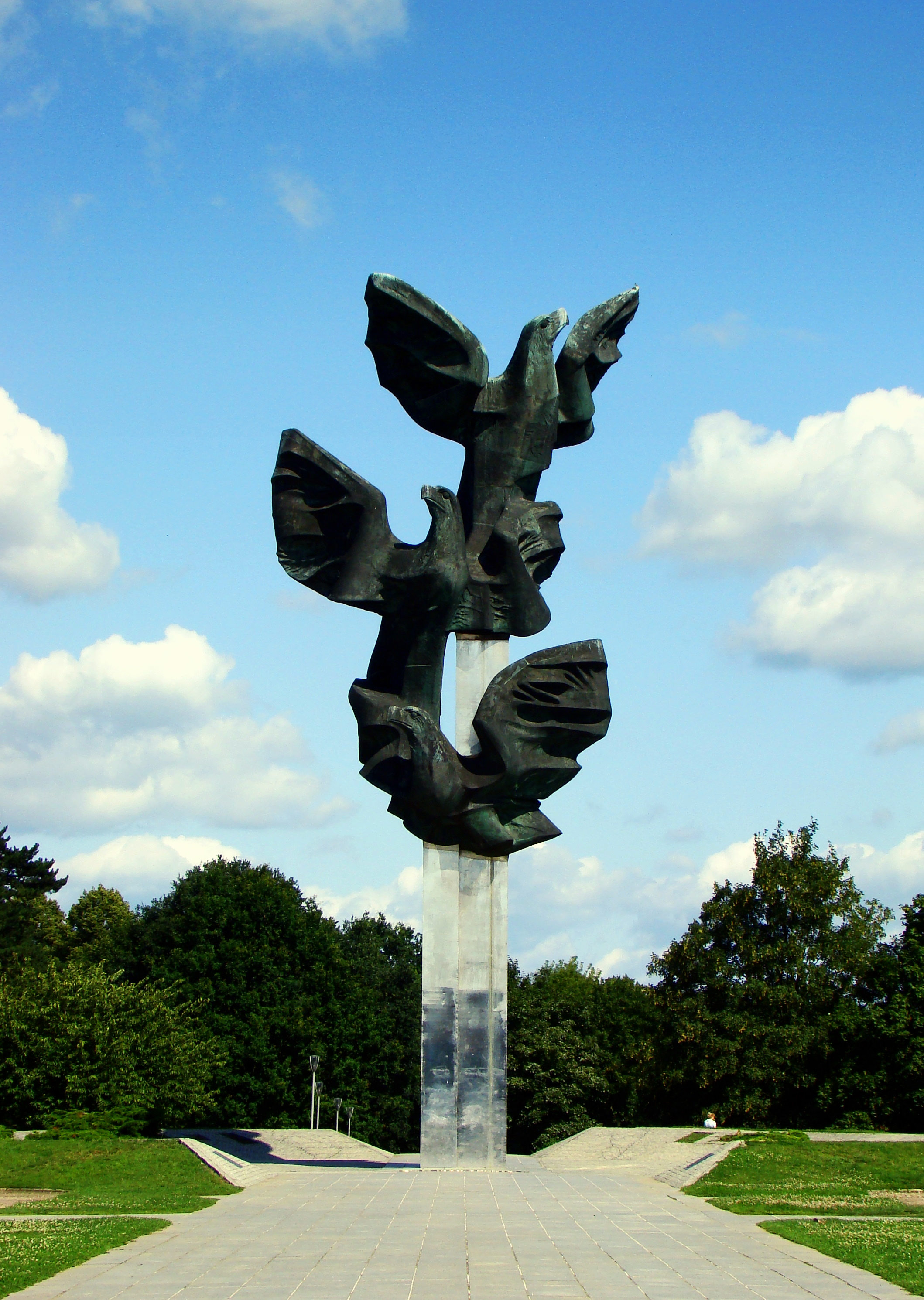 Monument to Polish Endeavor Szczecin, Poland